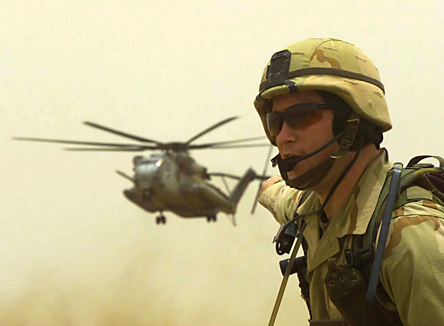 Northern Djibouti, Africa (Aug. 1, 2002) -- A U.S. Marine from the 22nd Marine Expeditionary Unit (MEU) Special Operations Capable (SOC) participates in a long-range deployment exercise from the amphibious assault ship USS Wasp (LHD 1) into Northern Djibouti. The training marks the return of the 22nd MEU SOC to Djibouti where they conducted training operations and humanitarian assistance earlier in their deployment. The 22nd MEU SOC is on a regularly scheduled deployment conducting combat missions in support of Operation Enduring Freedom. U.S. Marine Corps photo. (RELEASED)